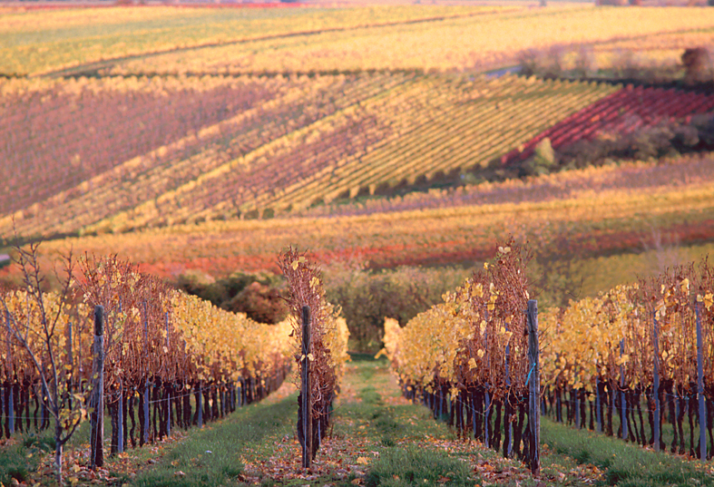 Vineyards near Bad Dürkheim in the Palatinate wine region, Germany